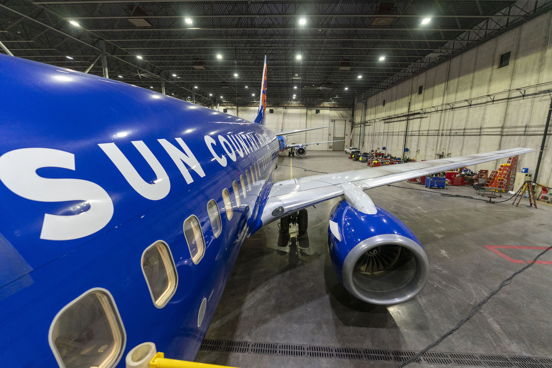 A Sun Country 737-700 inside their Minneapolis hangar.